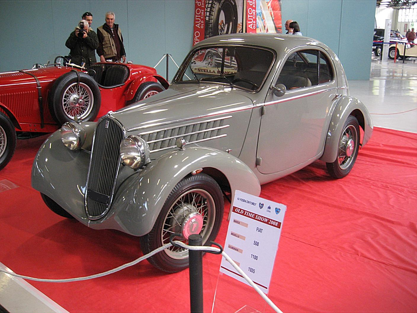 Subject:Fiat 508 S "Balilla" Berlinetta Mille Miglia Author:Luc106 Date:March 15th, 2007 Event:Old Timer Show 2008 Place/Country: Forlì, Italy I release all rights in the public domain.